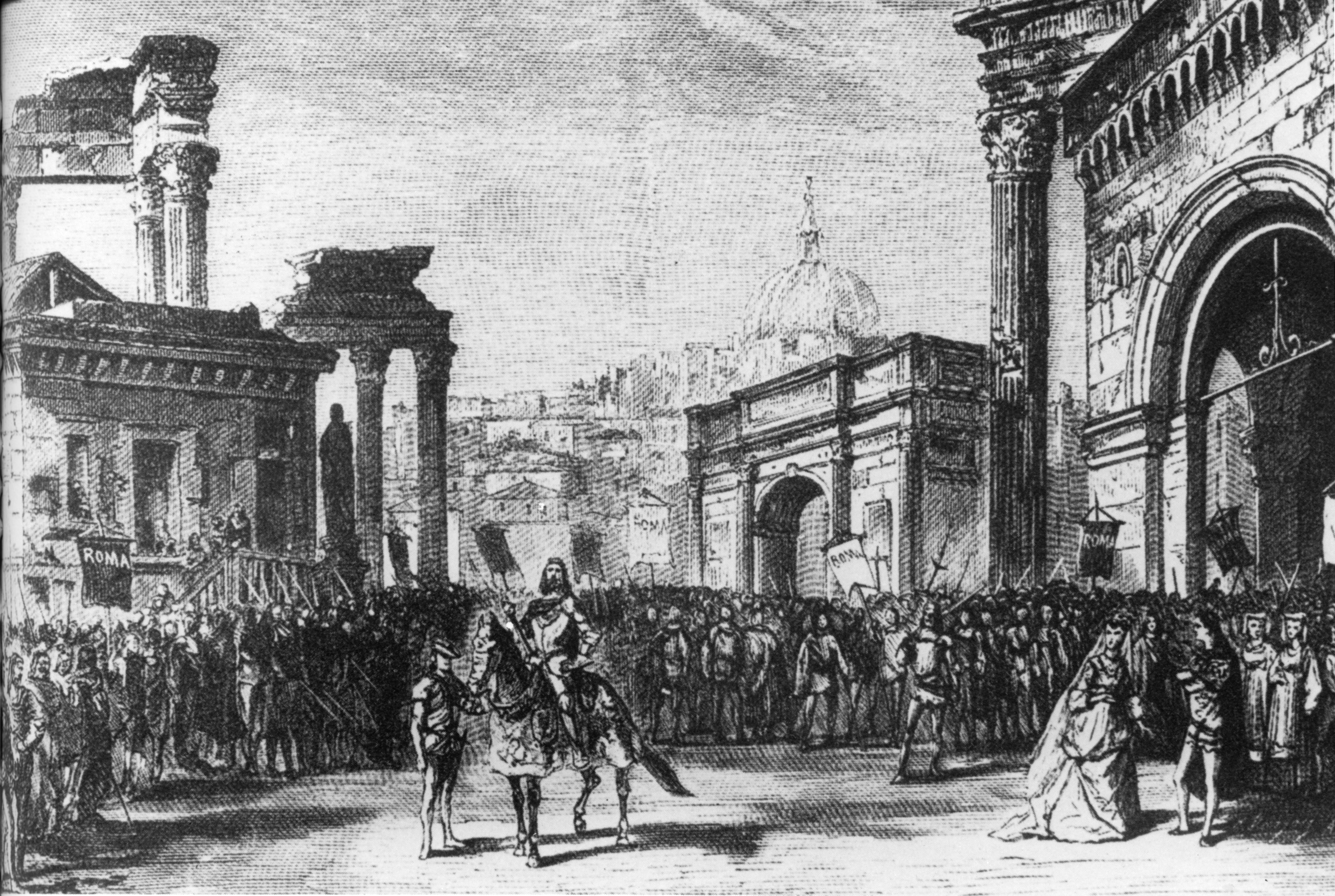 Illustration of Rienzi's entrance on horseback in the last scene of Act 3 in Wagner's opera Rienzi as performed in the Paris premiere at the Théâtre Lyrique beginning on 6 April 1869